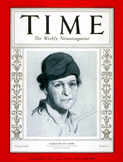 Time magazine, Volume 22 Issue 7, August 14, 1933. Front cover is an illustration of Frances Perkins, United States Secretary of Labor.